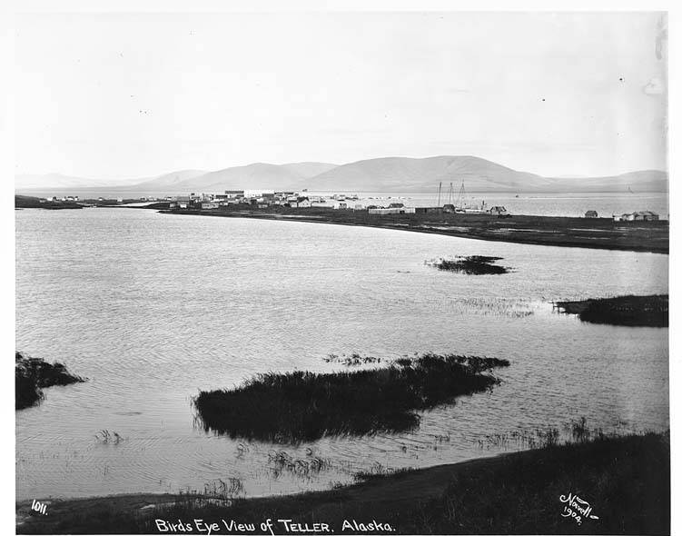 Caption on image: Bird's Eye View of Teller, Alaska. Nowell, 1904. 1011. Subjects (LCTGM): Cities & towns--Alaska Subjects (LCSH): Teller (Alaska); Spits (Geomorphology)--Alaska